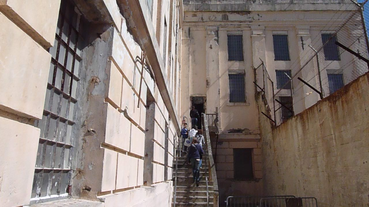 Exterior view of the main jailhouse from the exercise yard of Alcatraz in San Francisco, CA.